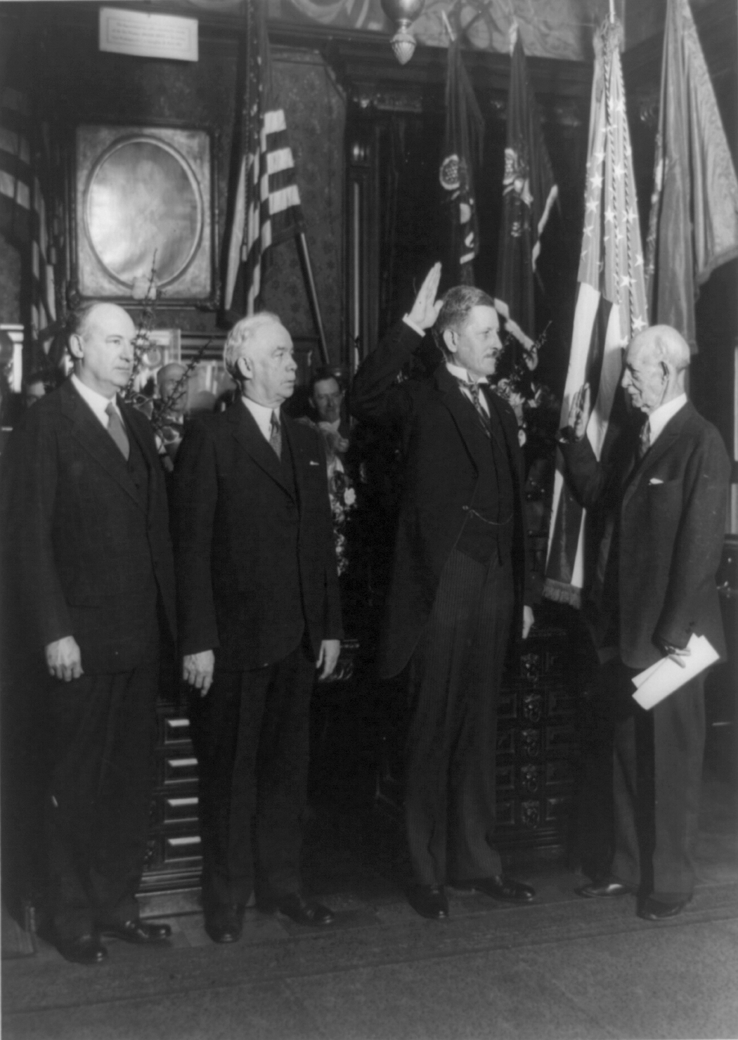 Col. Hurley takes office as Assistant War Secretary. Col. Patrick J. Hurley about to take the oath of office. Left to right: Col. Charles B. Robbins, retiring Assistant Secretary; Secretary of War James W. Good; Col. Hurley and John B. Randolph, who administered the oath.